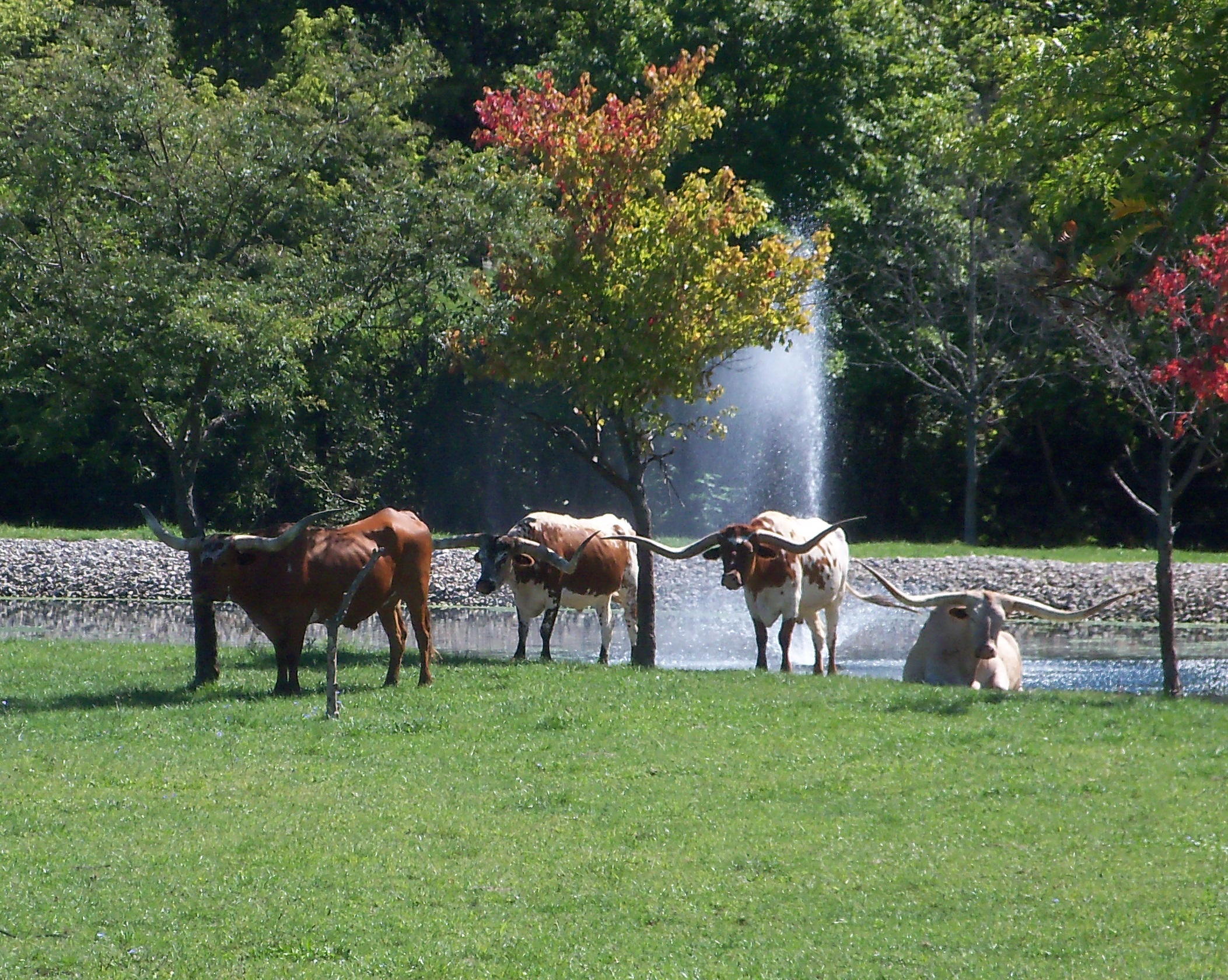 Longhorn Cattle by a pond at Green Circle Growers in Lorain County, Ohio